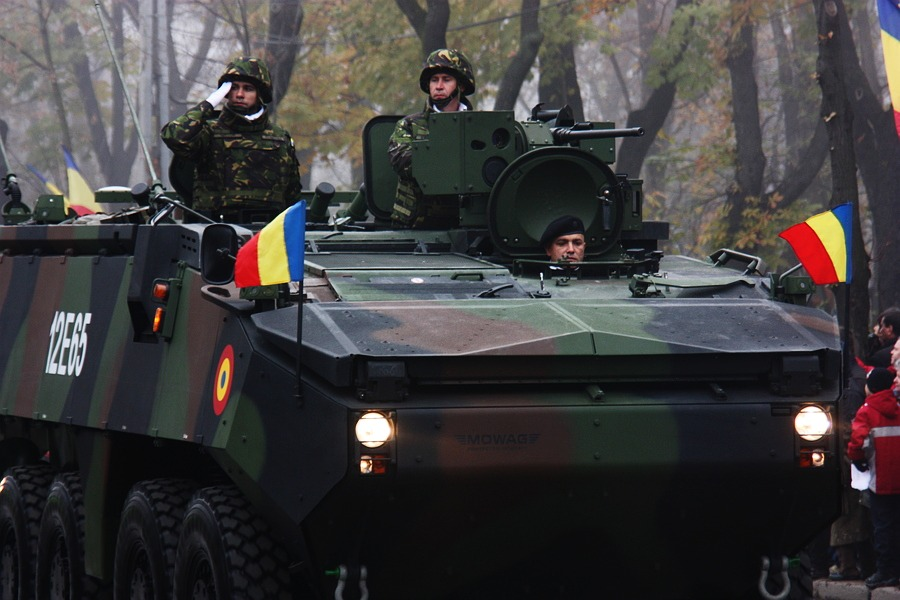 A Romanian MOWAG Piranha on the Romanian National Day parade on December 1st, at the Triumph Arch in Bucharest.